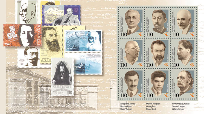 Stamp of Armenia